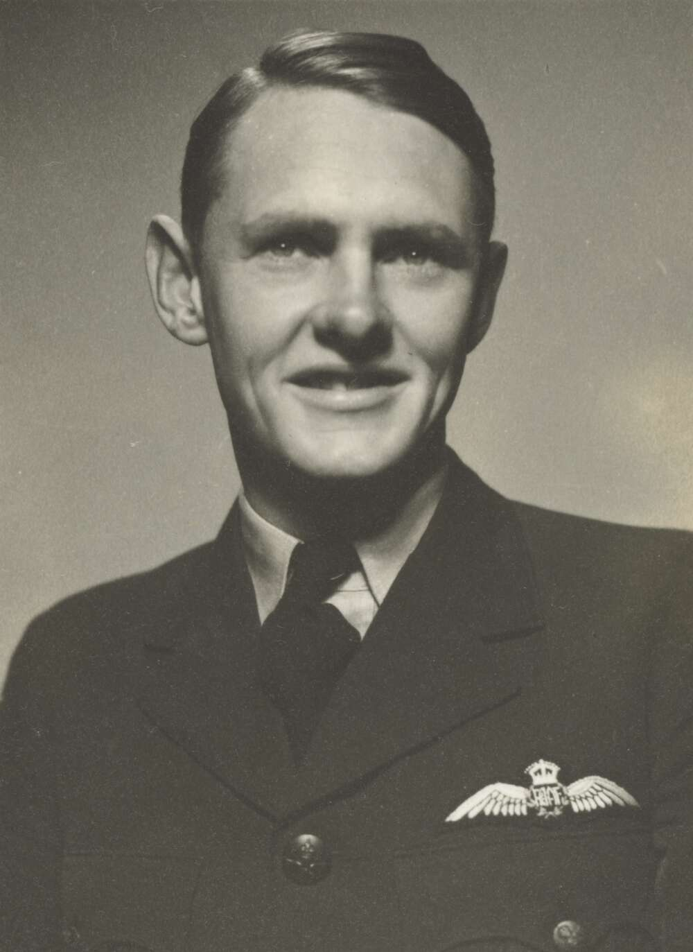 John Gorton as a RAAF Pilot Officer in 1941